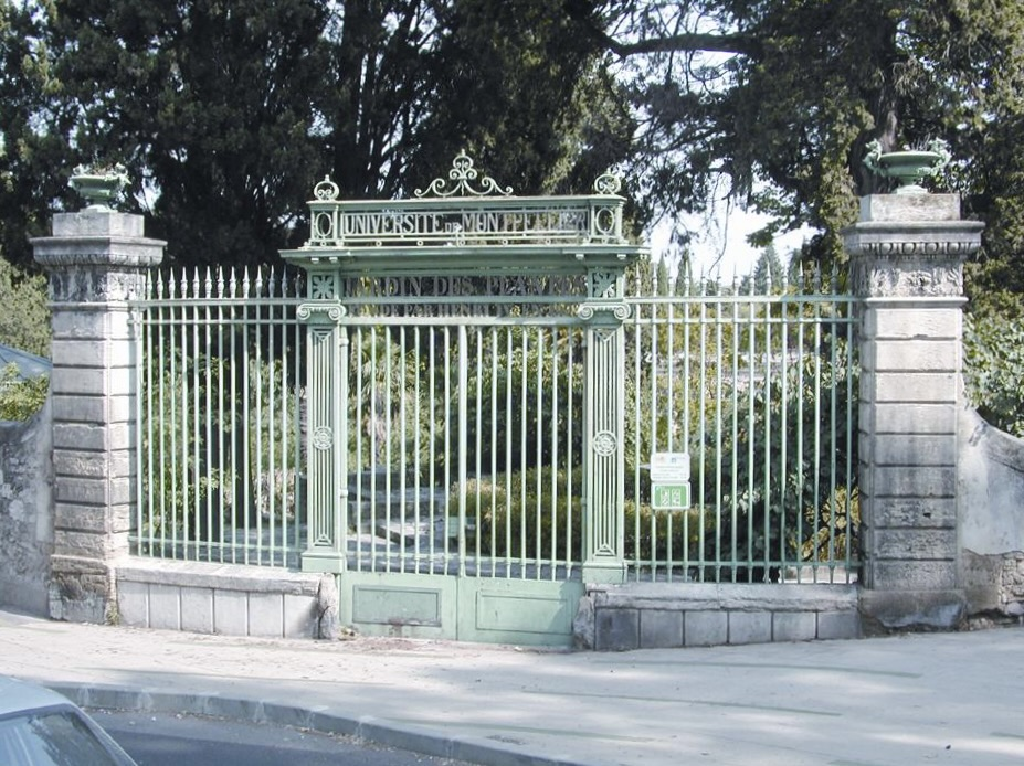 Entrance of the Plant Garden of Montpellier, France.